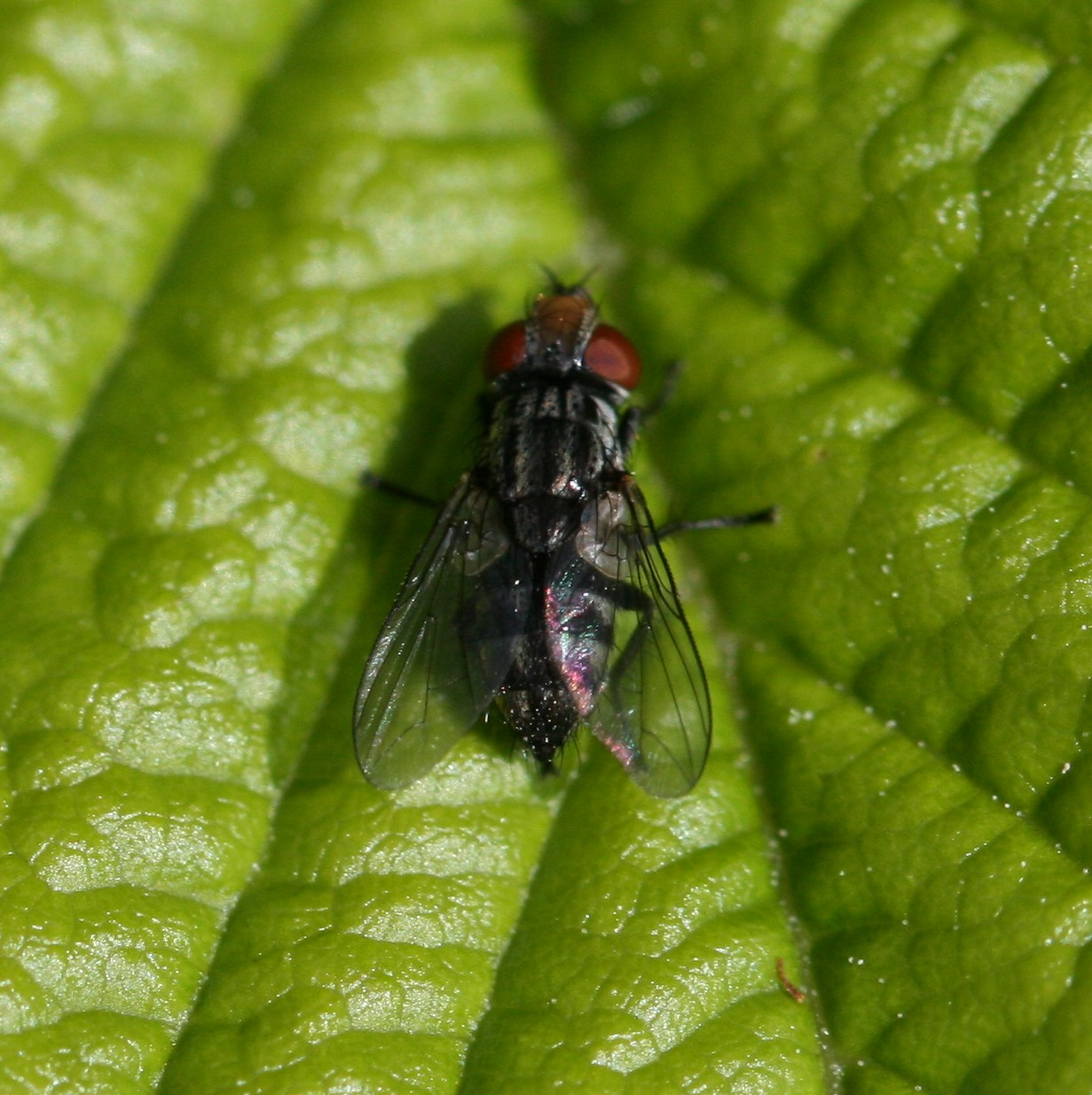 A Satellite Fly.